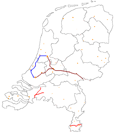 A maps of the railway network in the Netherlands in 1860, showing the different operators (blue=HSM, brown=NSR, Red= other companies. Based on this map)